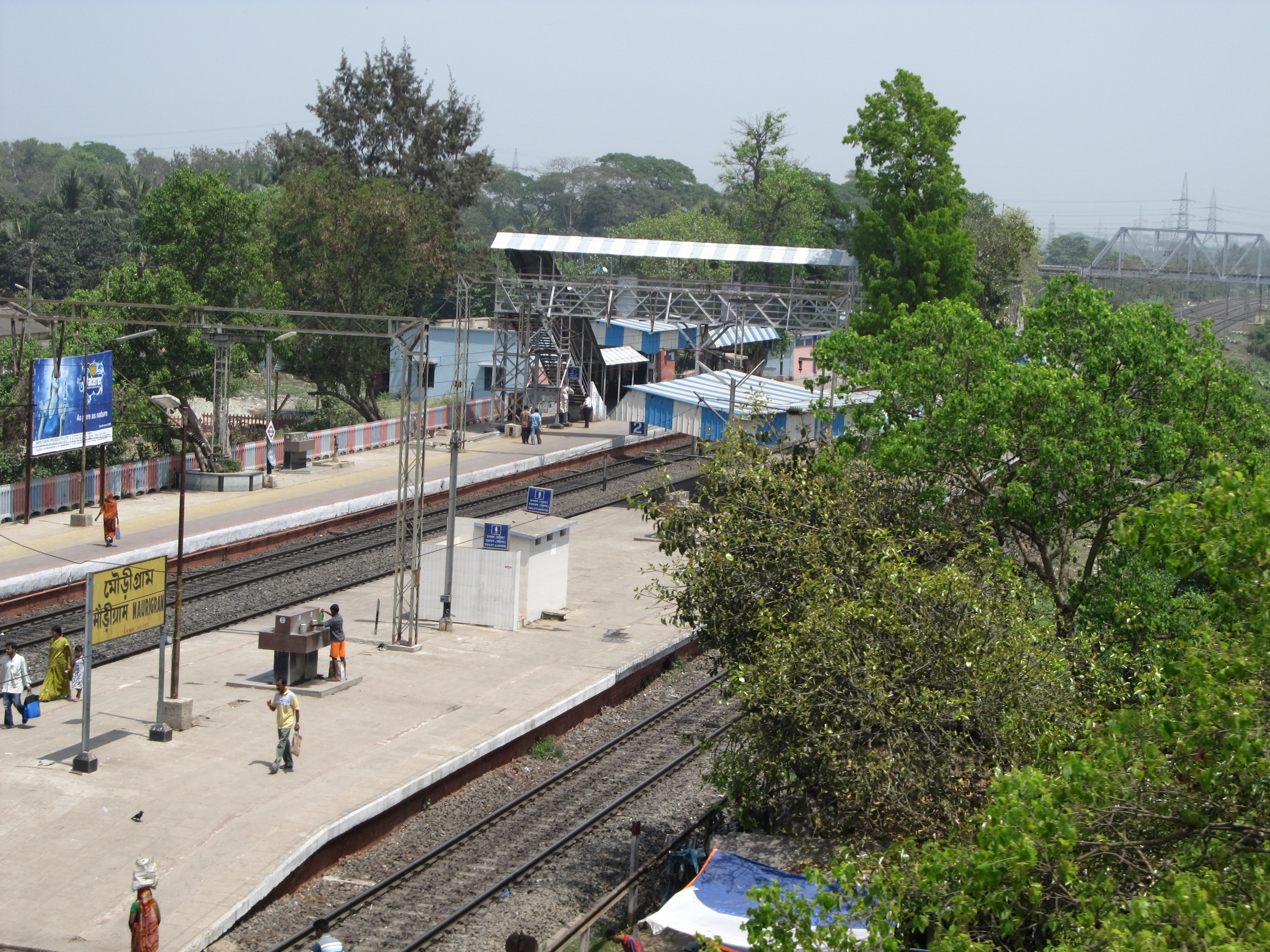 Photographed at Andul, Howrah.